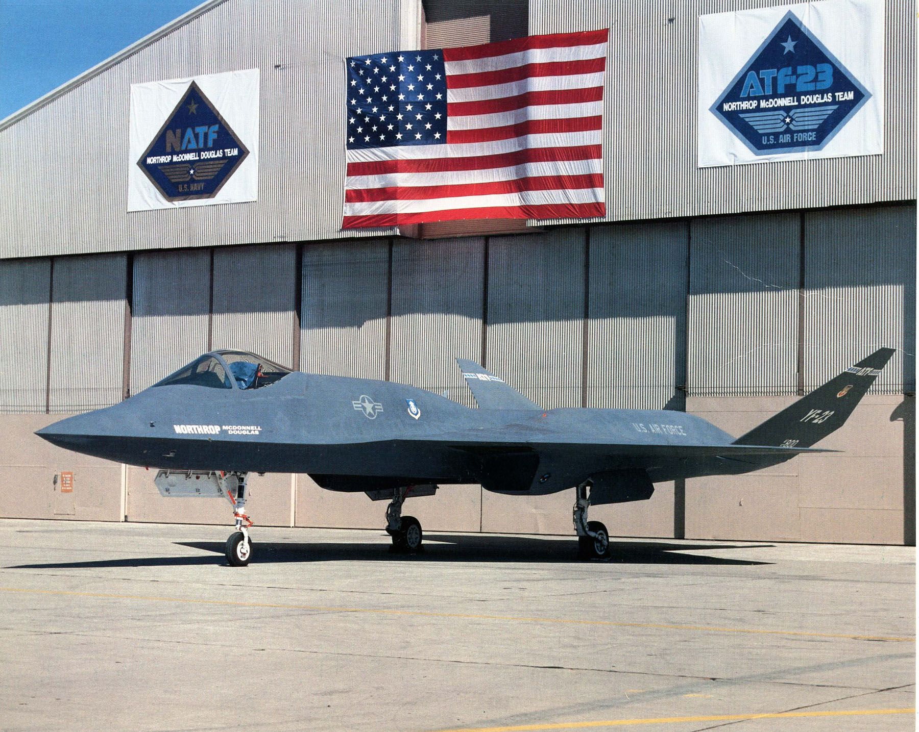 Northrop-McDonnell Douglas YF-23. (U.S. Air Force photo)